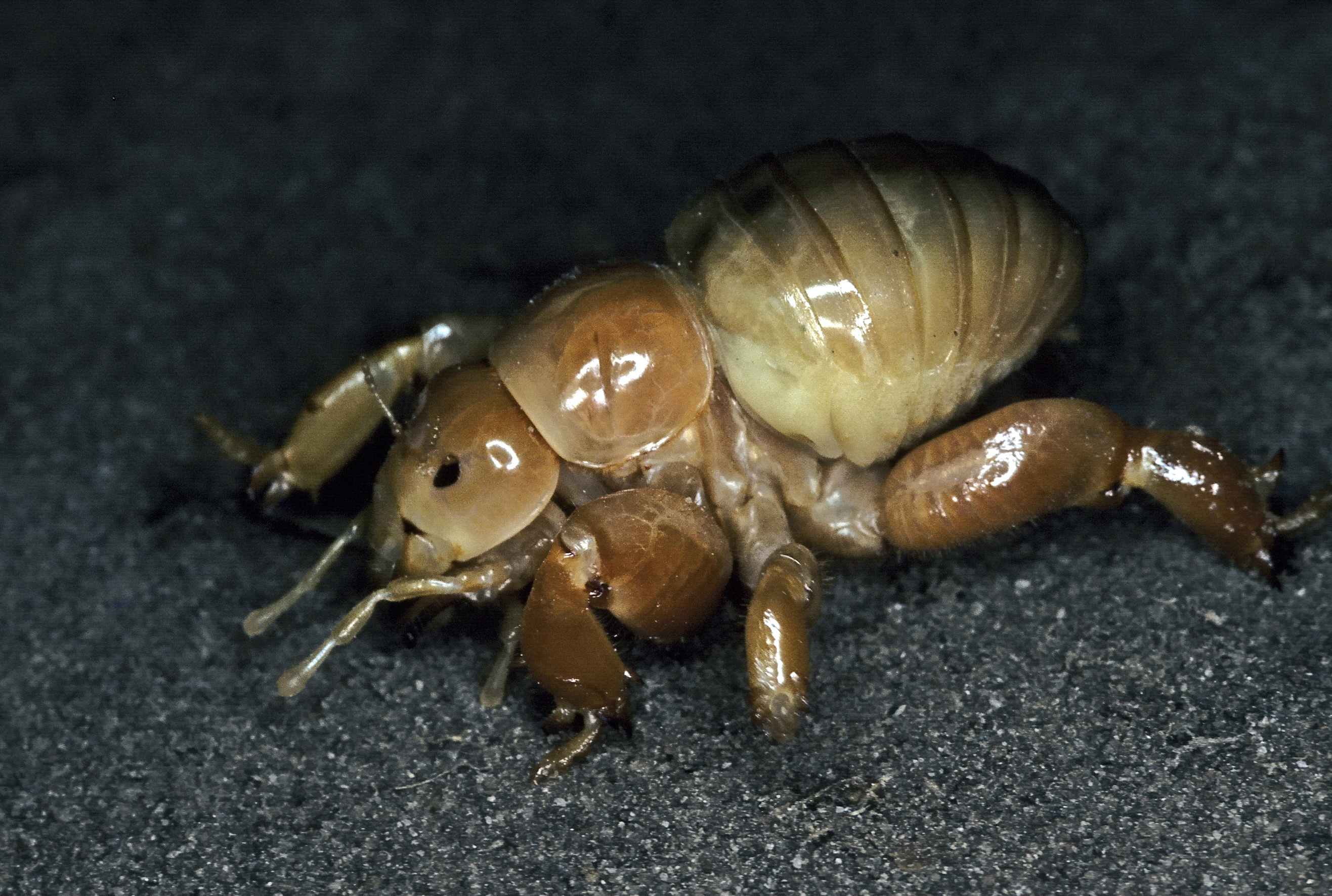 The Cooloola Monster – Cooloola propator is an unusual, primitive, cricket-like insect of the order Orthoptera, discovered in Cooloola National Park, Queensland circa 1980. The genus was considered distinct enough to be placed in its own family, the Cooloolidae. The Cooloola Monster lives almost entirely underground and is believed to feed on other soil-dwelling invertebrates. Three other species of Cooloola have since been described.